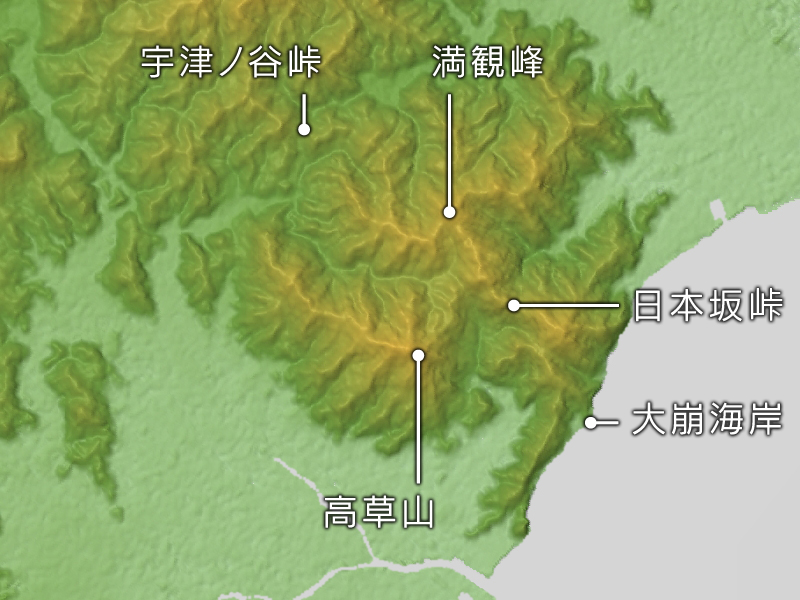 Mount Takakusa & Mount Mankanho & Utsunoya Pass & Nihonzaka Pass in Shizuoka Prefecture, Honshu, Japan.